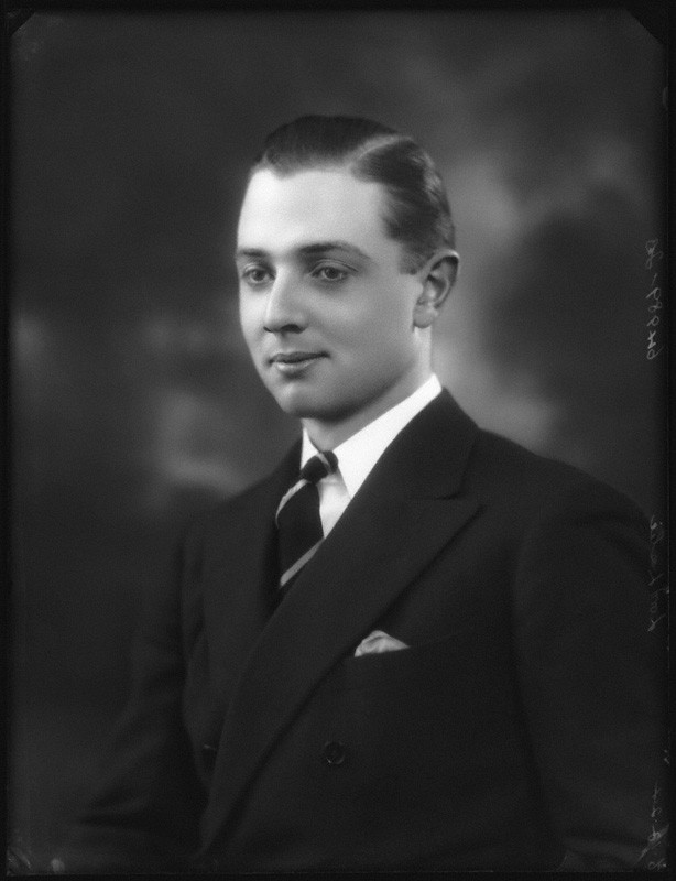 by Bassano, whole-plate glass negative, 6 December 1924